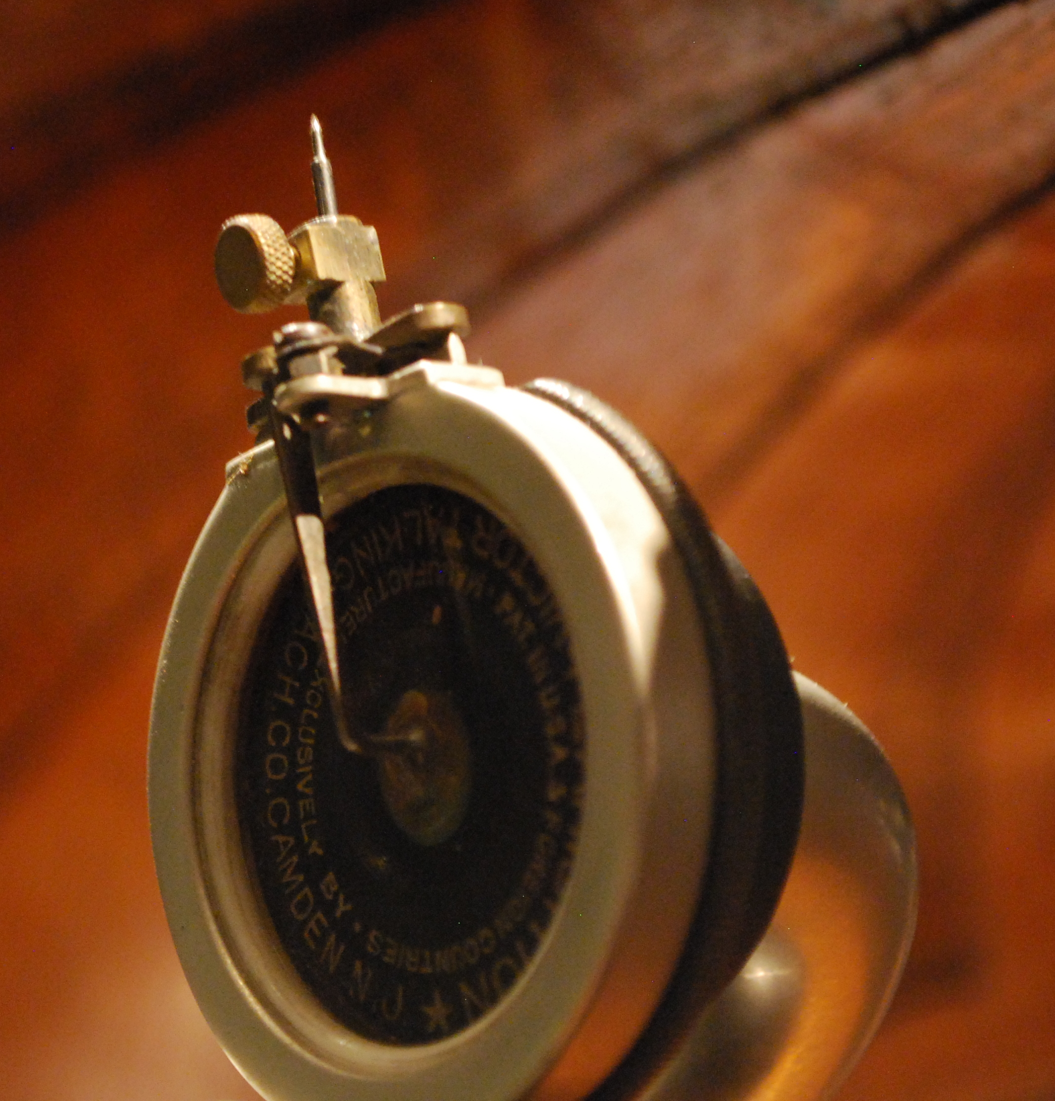 Closeup of a Victor Exhibition reproducer on an antique phonograph from the Salvador Velez collection